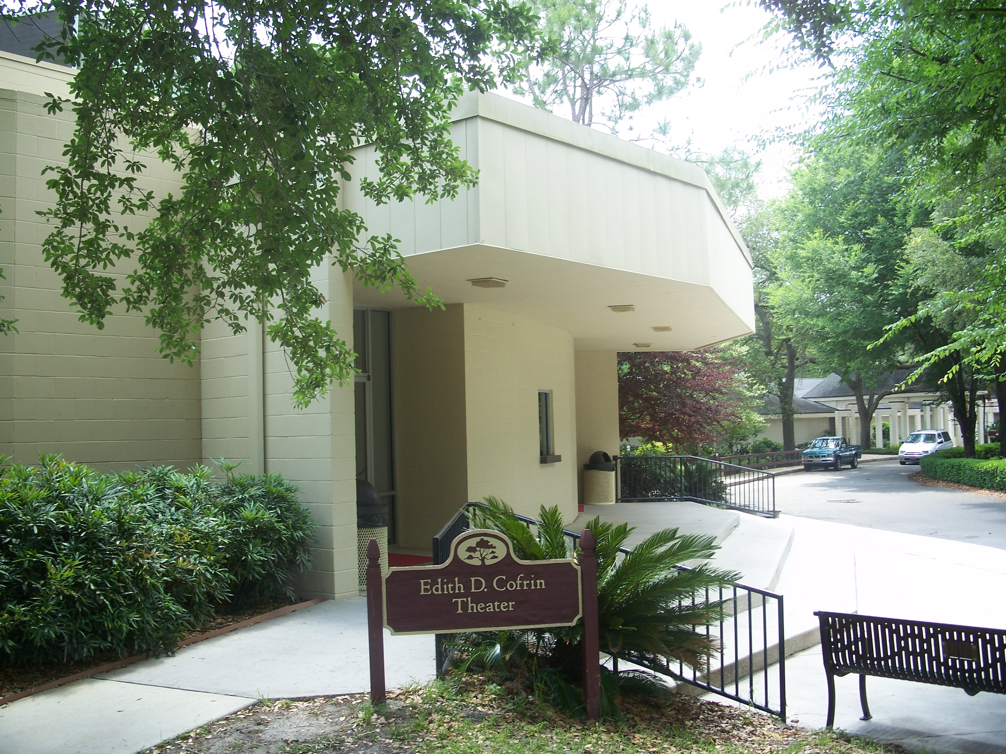 Gainesville, Florida: Oak Hall School: Edith D. Cofrin Theatre